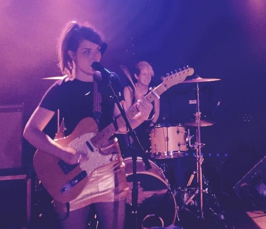 Cropped version of File:Honeyblood_May_2015.jpg created up uploader